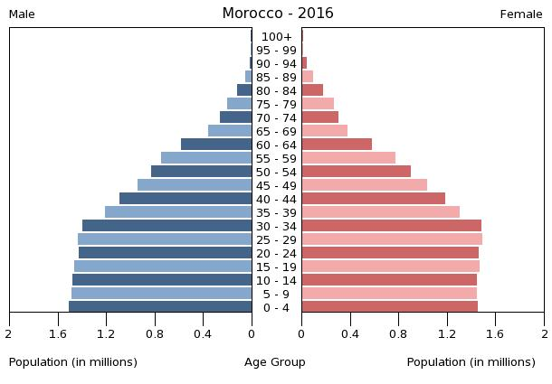 The population pyramid of Morocco illustrates the age and sex structure of population and may provide insights about political and social stability, as well as economic development. The population is distributed along the horizontal axis, with males shown on the left and females on the right. The male and female populations are broken down into 5-year age groups represented as horizontal bars along the vertical axis, with the youngest age groups at the bottom and the oldest at the top. The shape of the population pyramid gradually evolves over time based on fertility, mortality, and international migration trends.